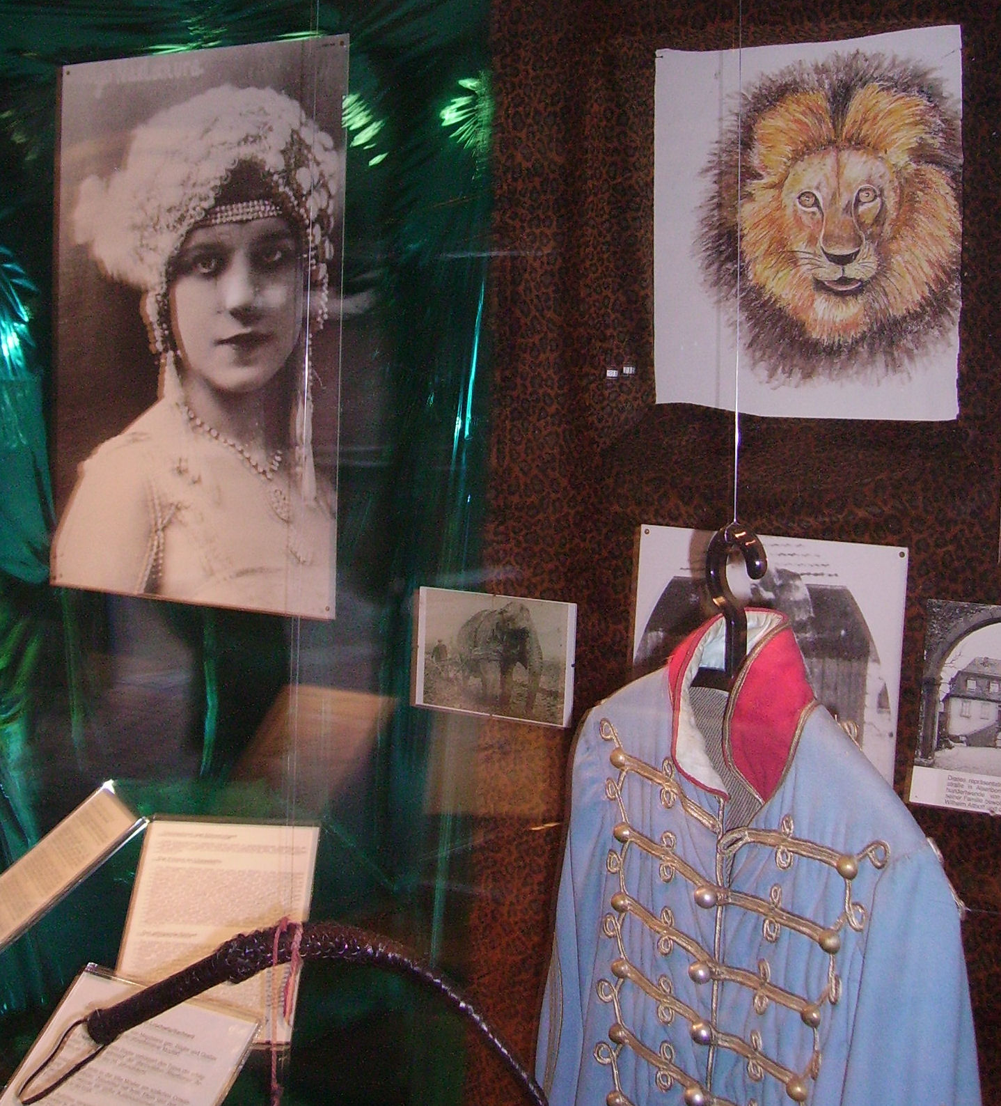 view of Alsenborn, Germany